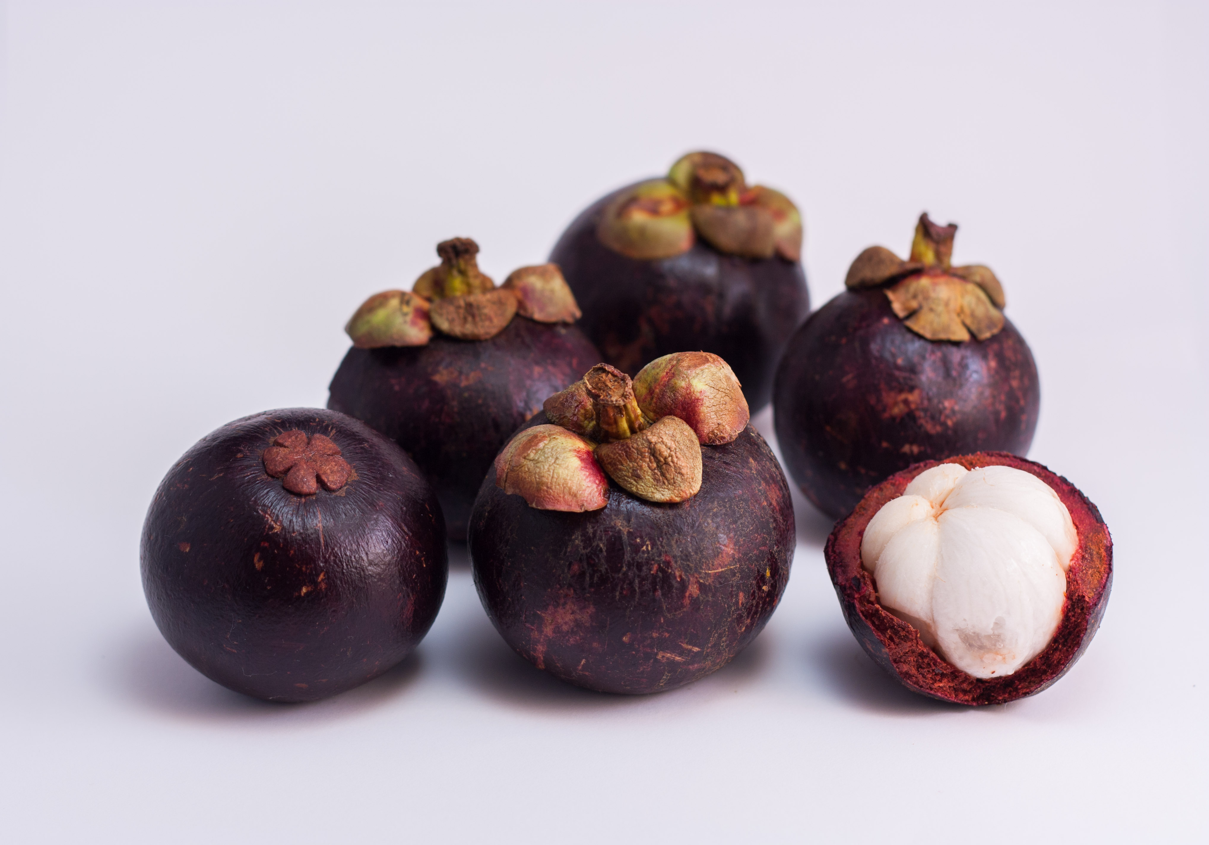 Purple mangosteen